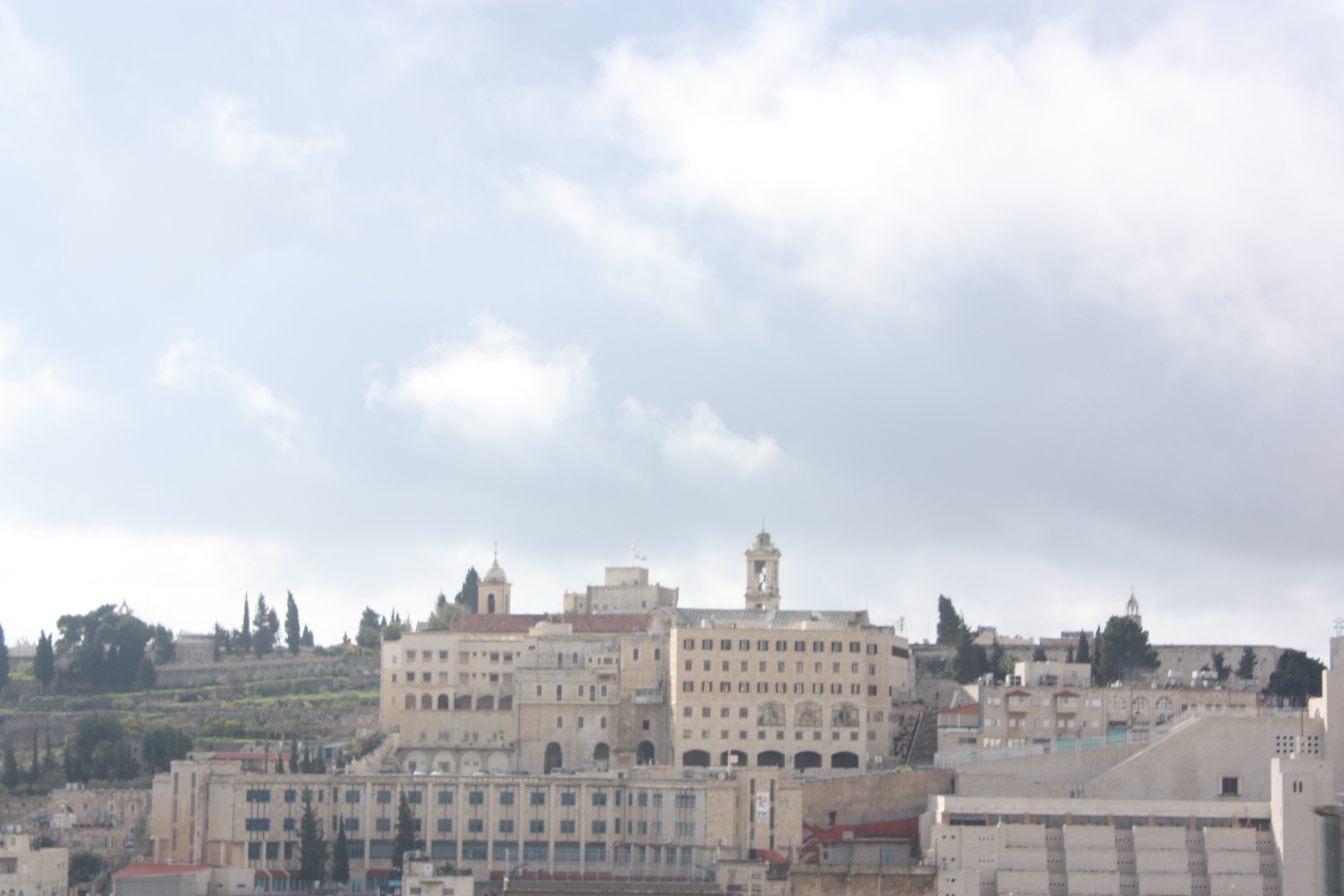 Bethlehem from the north including towers of the Church of the Nativity.